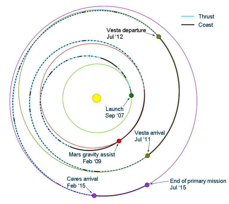 Trajectory of the Dawn space probe as of September 2009